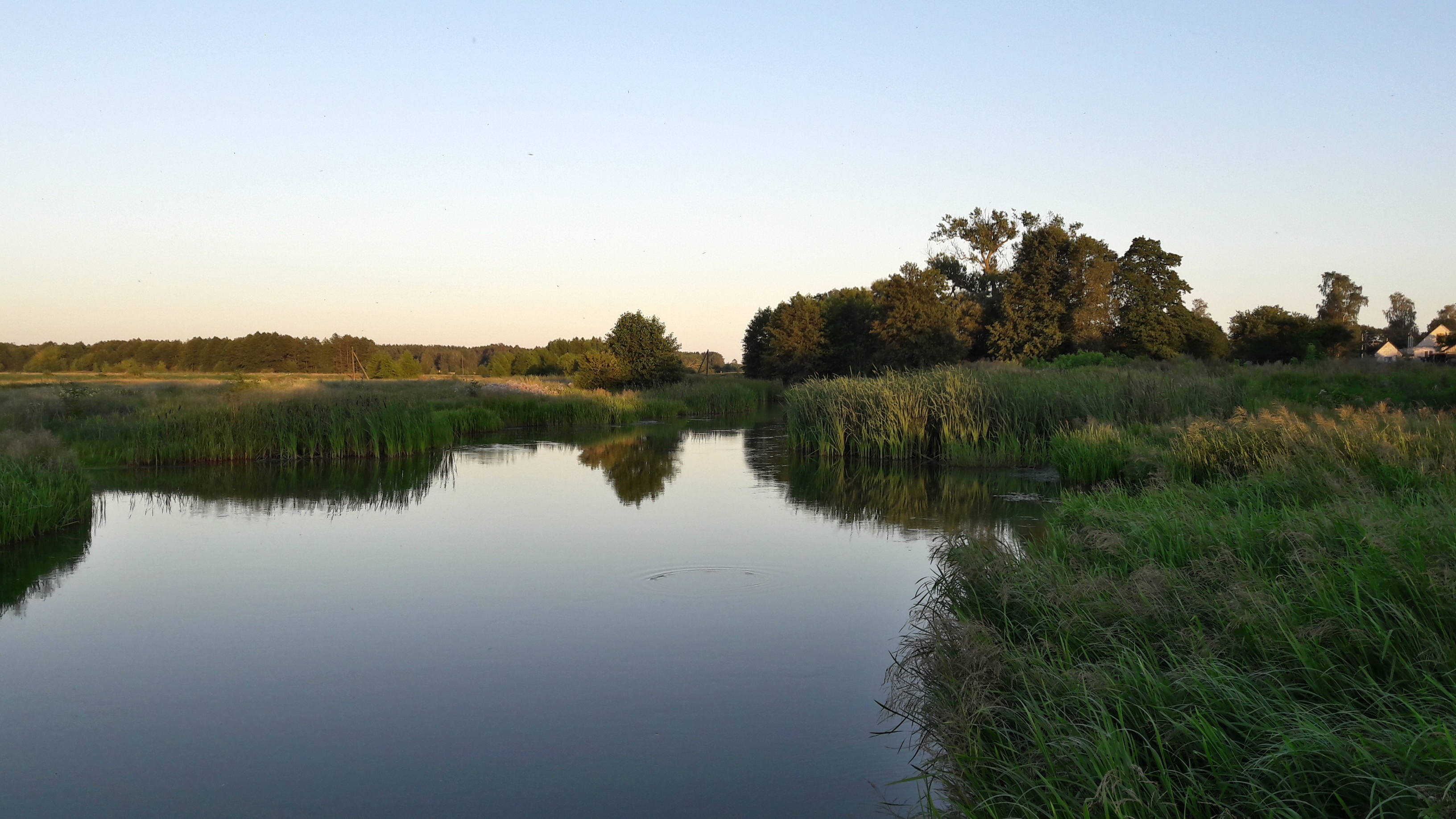 River Zelvyanka east of Zelva